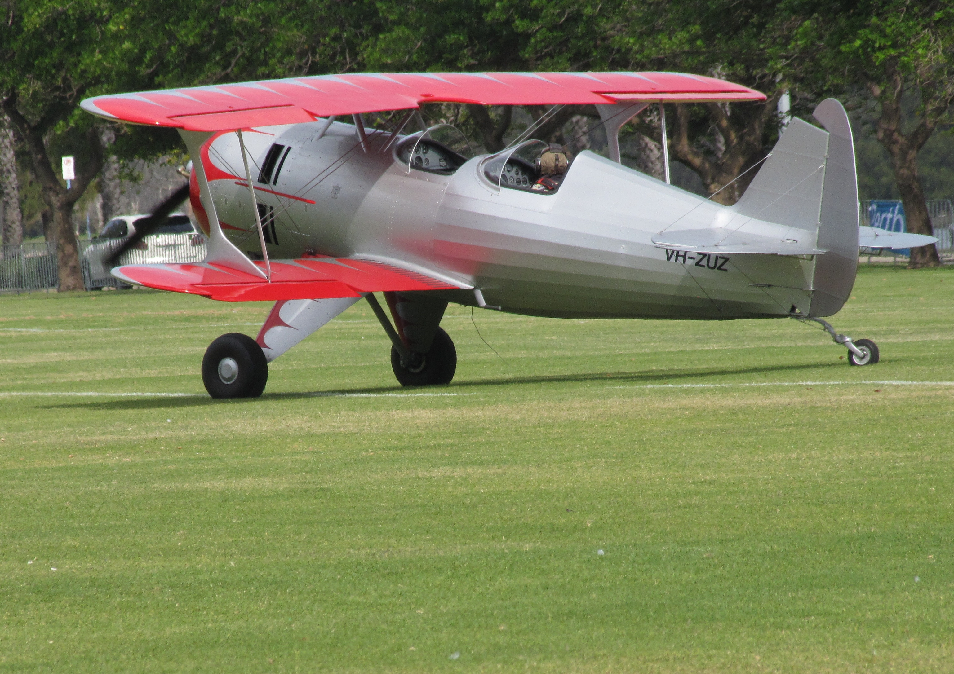 In October 2011 the SAAA held a fly-in at Perth's Langley Park for the first time since 1999. The Langley Park site was first used by Norman Brearley in 1919 and was home to Western Australian Airways for a period from December 1921. The Red bull Air race was held here four times between 2006 and 2010.